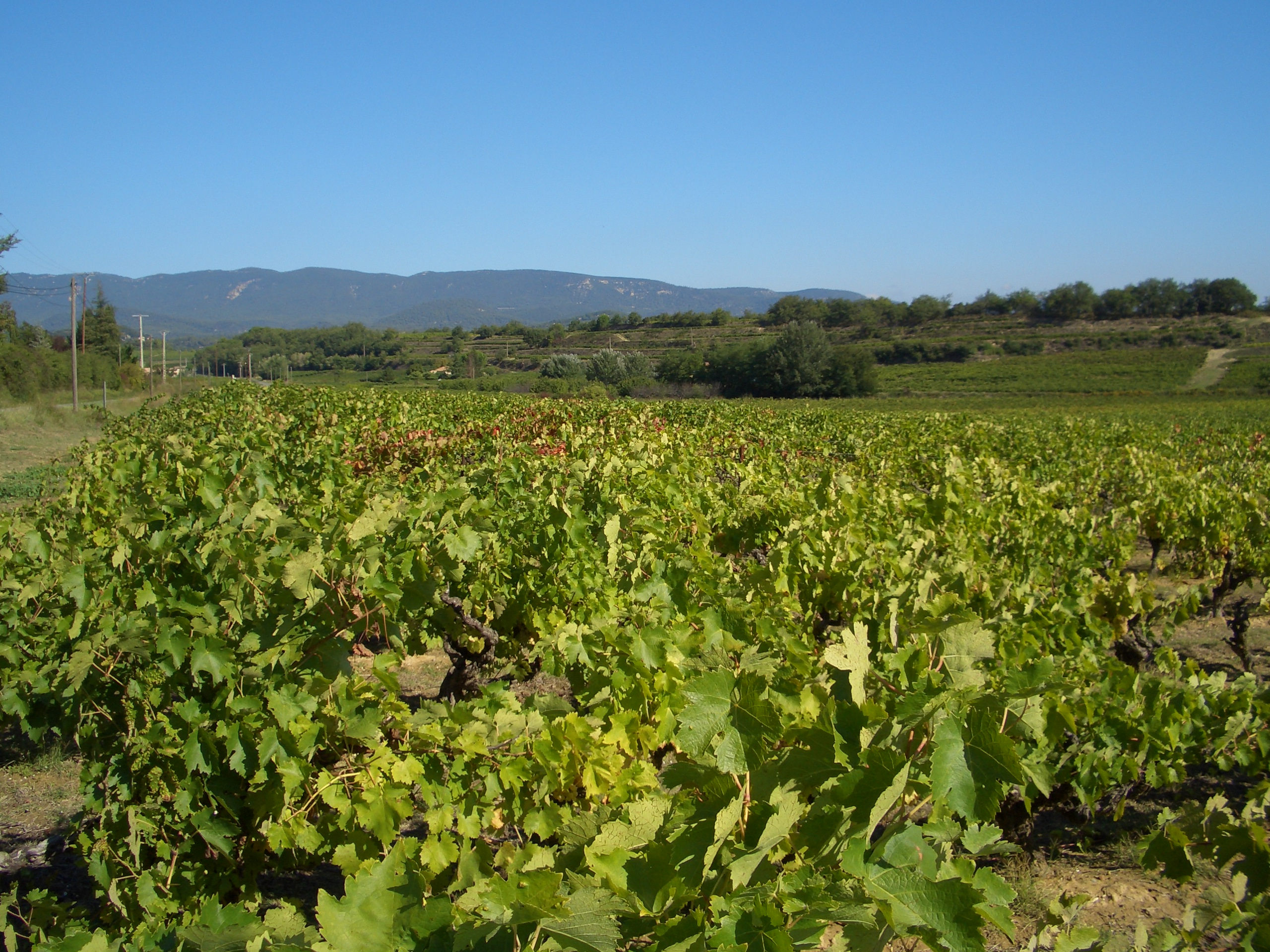 Vineyard in the French wine region of Cotes de Luberon in the southern Rhone Valley.